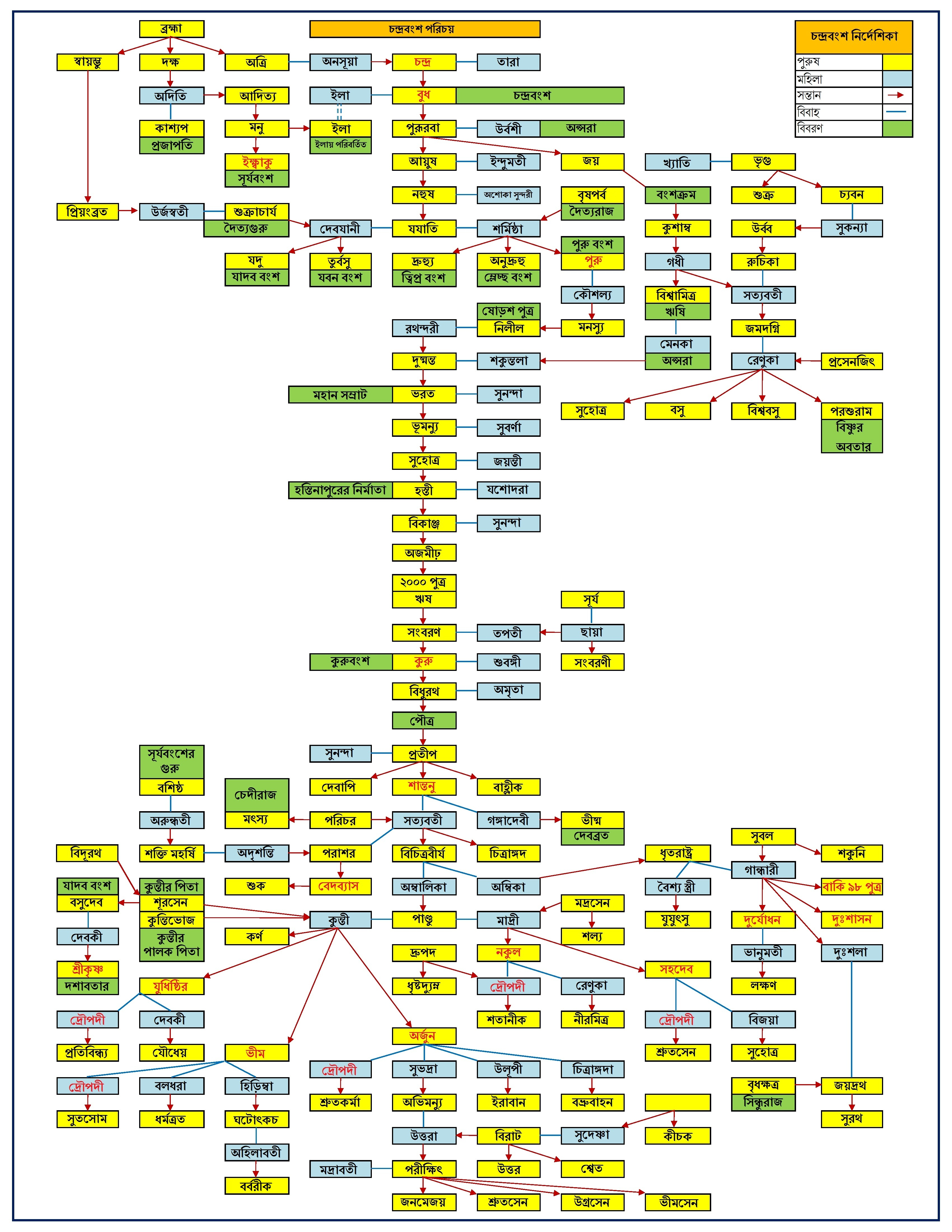 This is the Family tree of the Chandrabamsha or the Lunar Dynasty as described in Mahabharata, Puranas and other Hindu Mythological books.